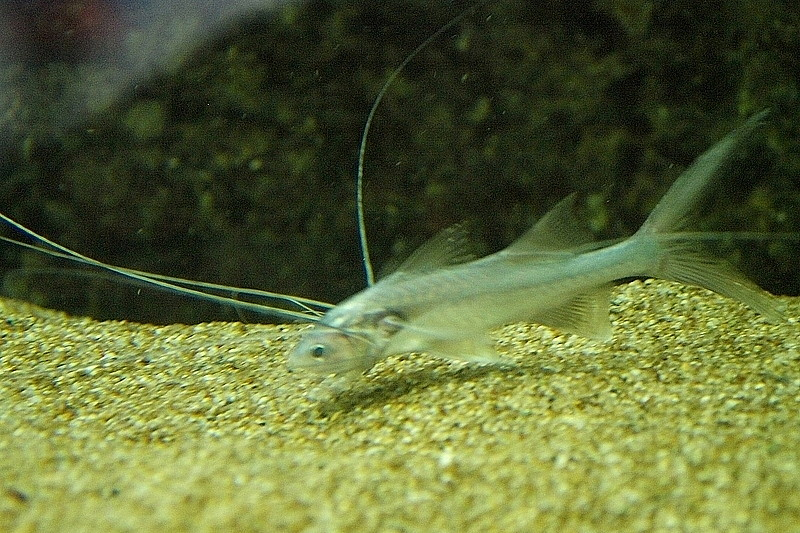 Elegant paradiseus fish Polynemus multifilis (Temminck & Schlegel, 1843)